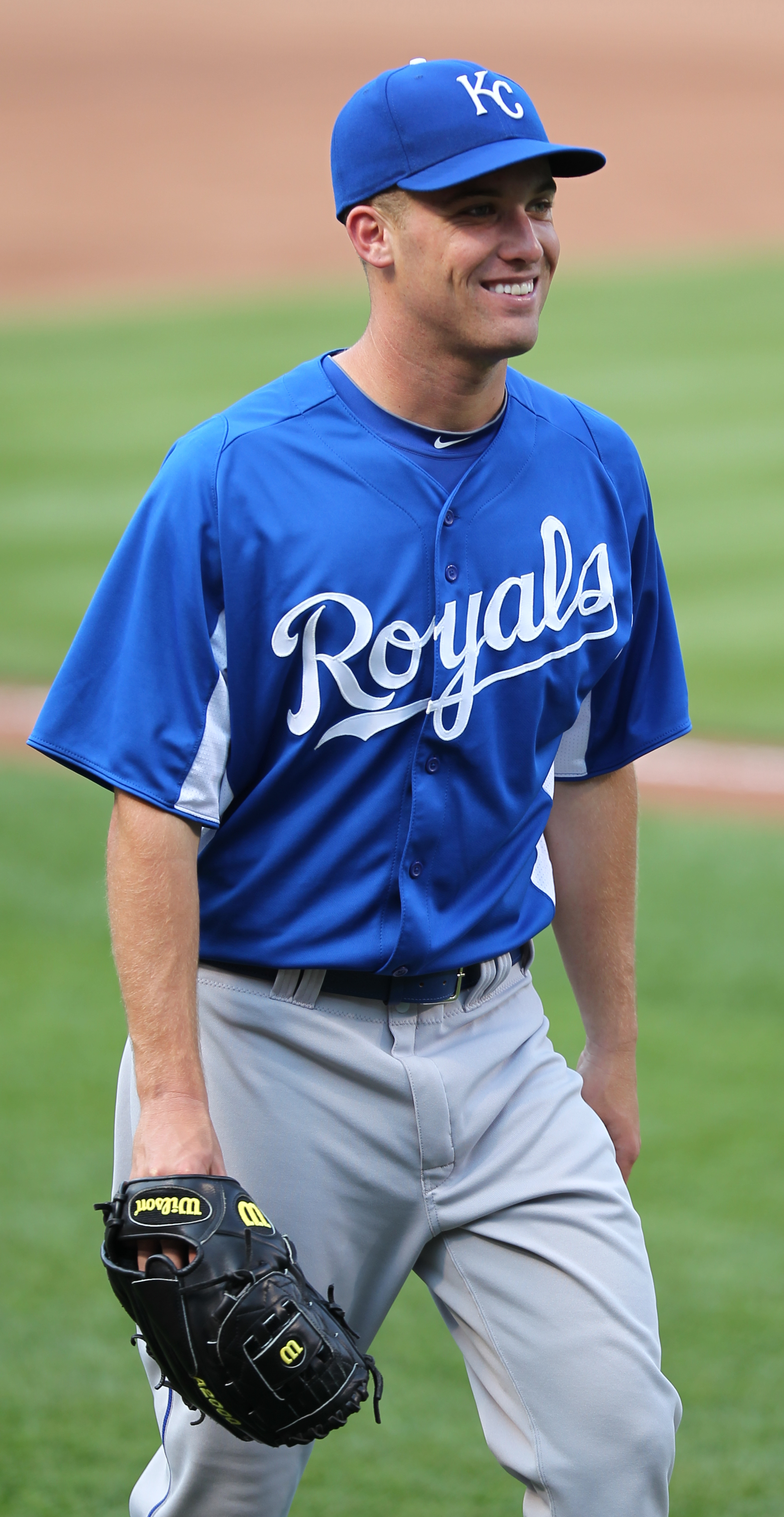 Kansas City Royals at Baltimore Orioles May 25, 2011